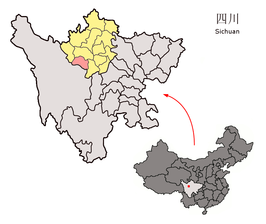 Location of Jinchuan County (pink) and Ngawa Prefecture (yellow) within Sichuan province of China Map drawn in september 2007 using various sources, mainly : Sichuan province administrative regions GIS data: 1:1M, County level, 1990 Sichuan Counties map from